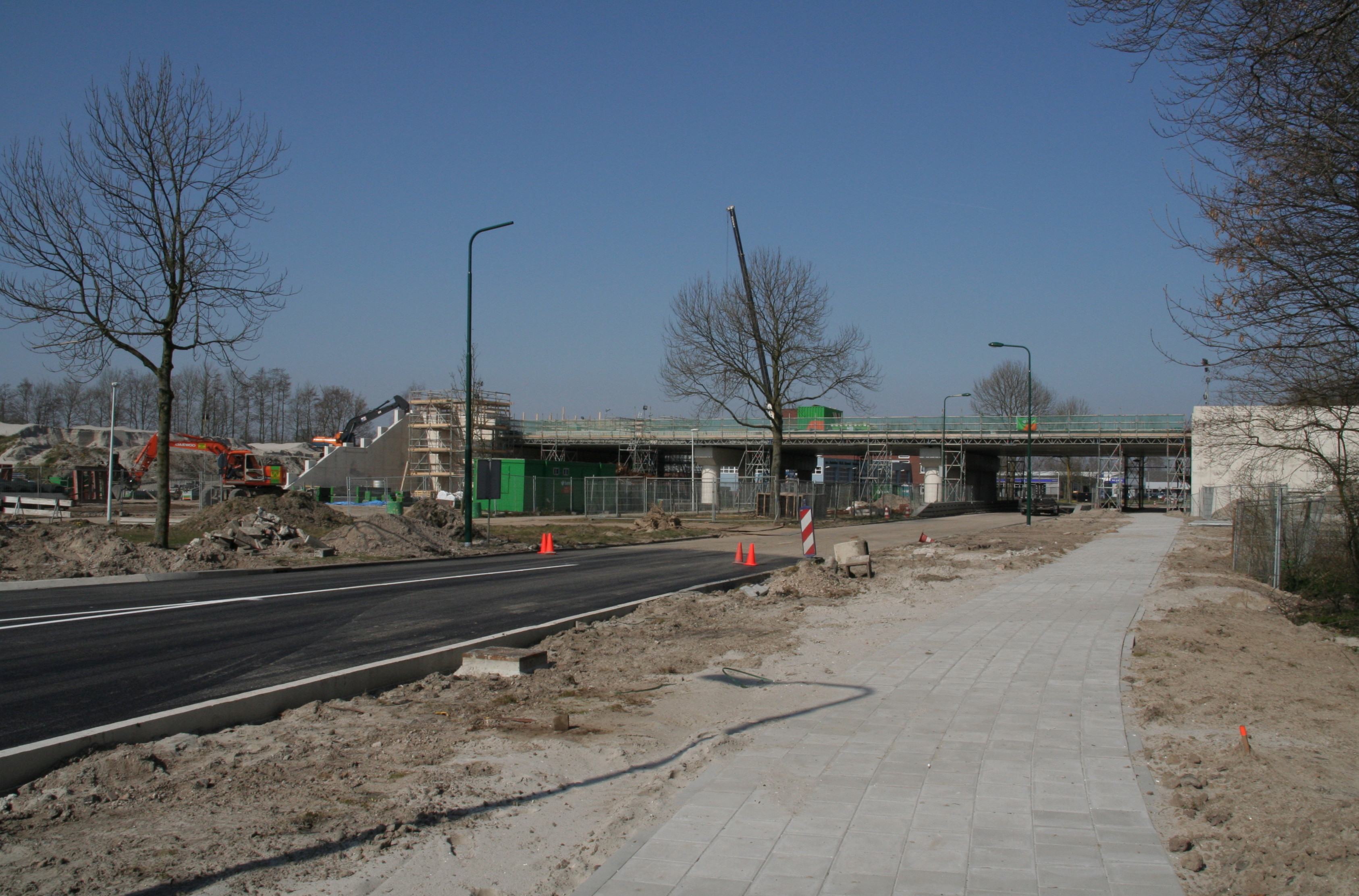 Station Dronten in progress